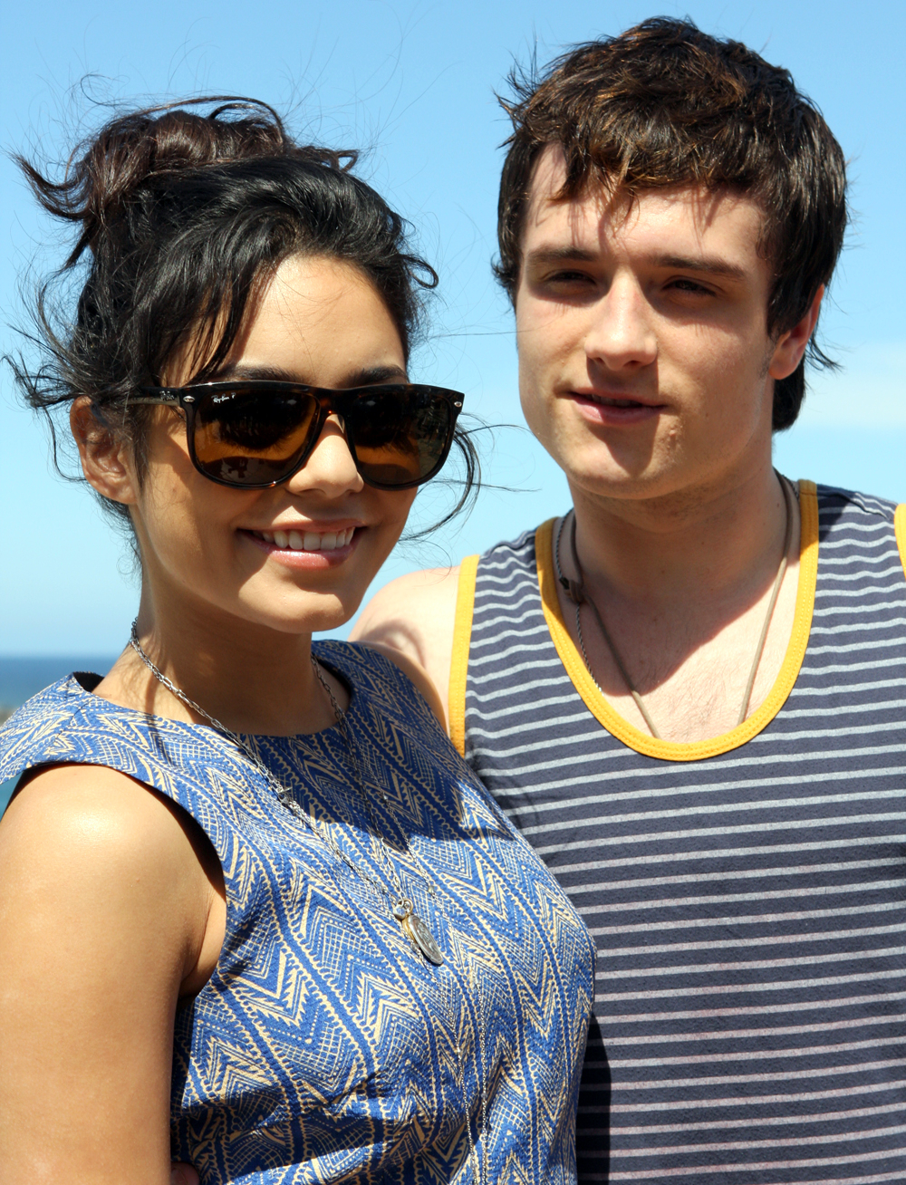 Vanessa Hudgens and Josh Hutcherson Adventure to Bondi Beach 2012.